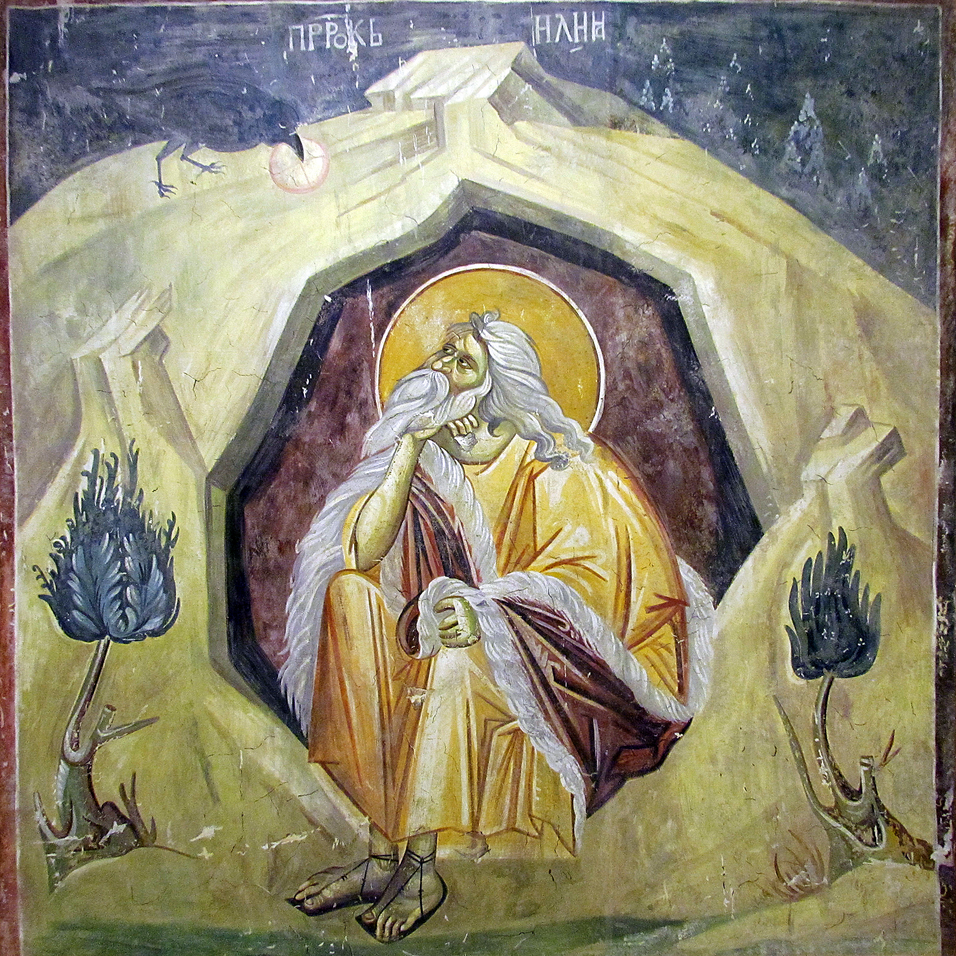 Elijah, a prophet and a miracle worker, Gračanica monastery